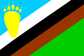 first version of the bear community flag